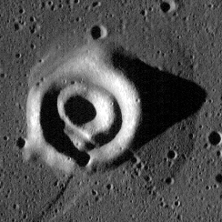 Lunar crater Marth. Fragment of Marth (LROC-WAC) 20km 1.png. Sun elevation is 5.6°, width of the photo is 15 km.